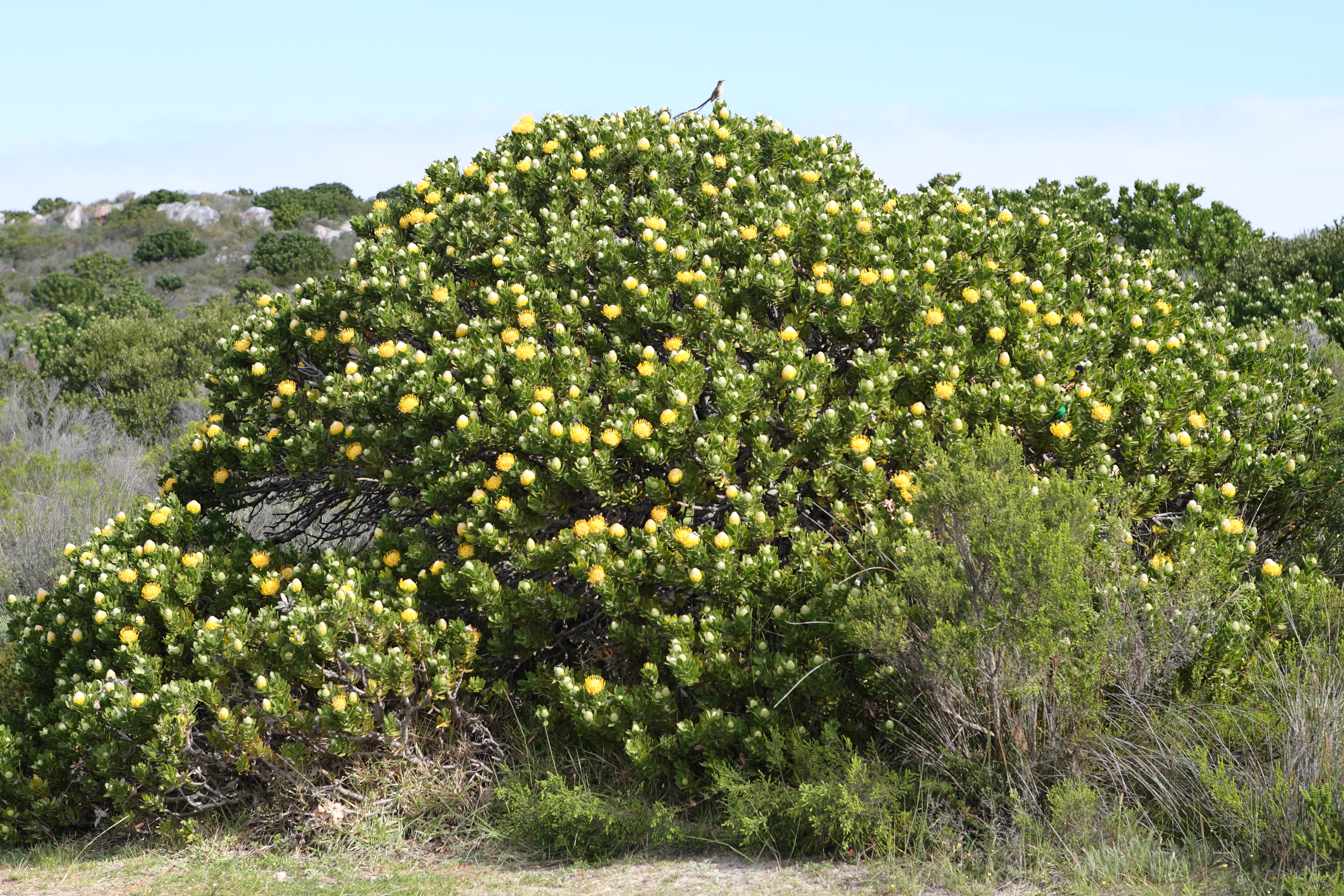 Some of the unique flora and fauna at Table Mountain National Park, South Africa